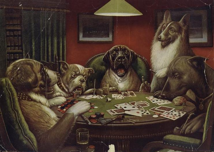 Print "A Waterloo" by Cassius Marcellus Coolidge.